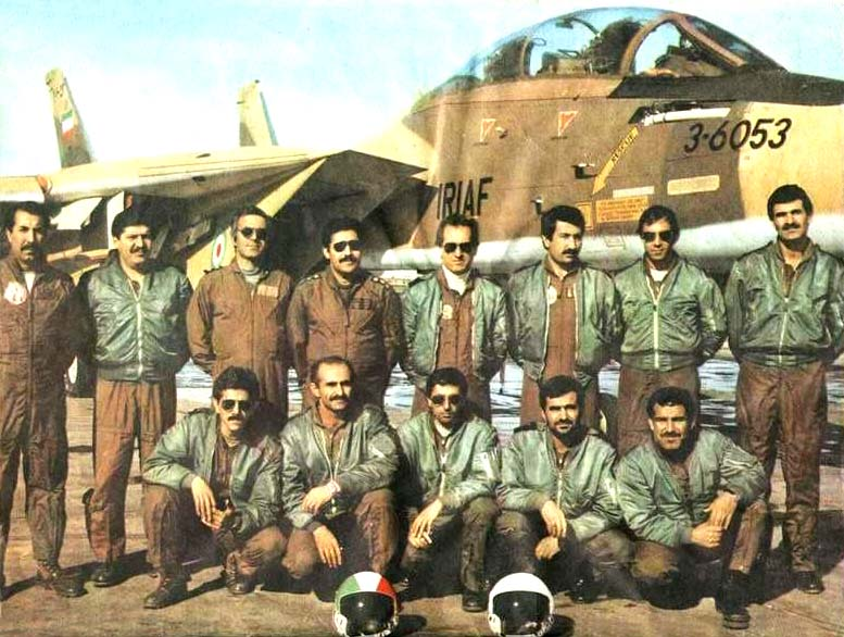 first squadron of Iranian Pilots of F14 tomcats of Islamic Republic of Iran Air Force (Iranian Revolution) at Shiraz Air Base.